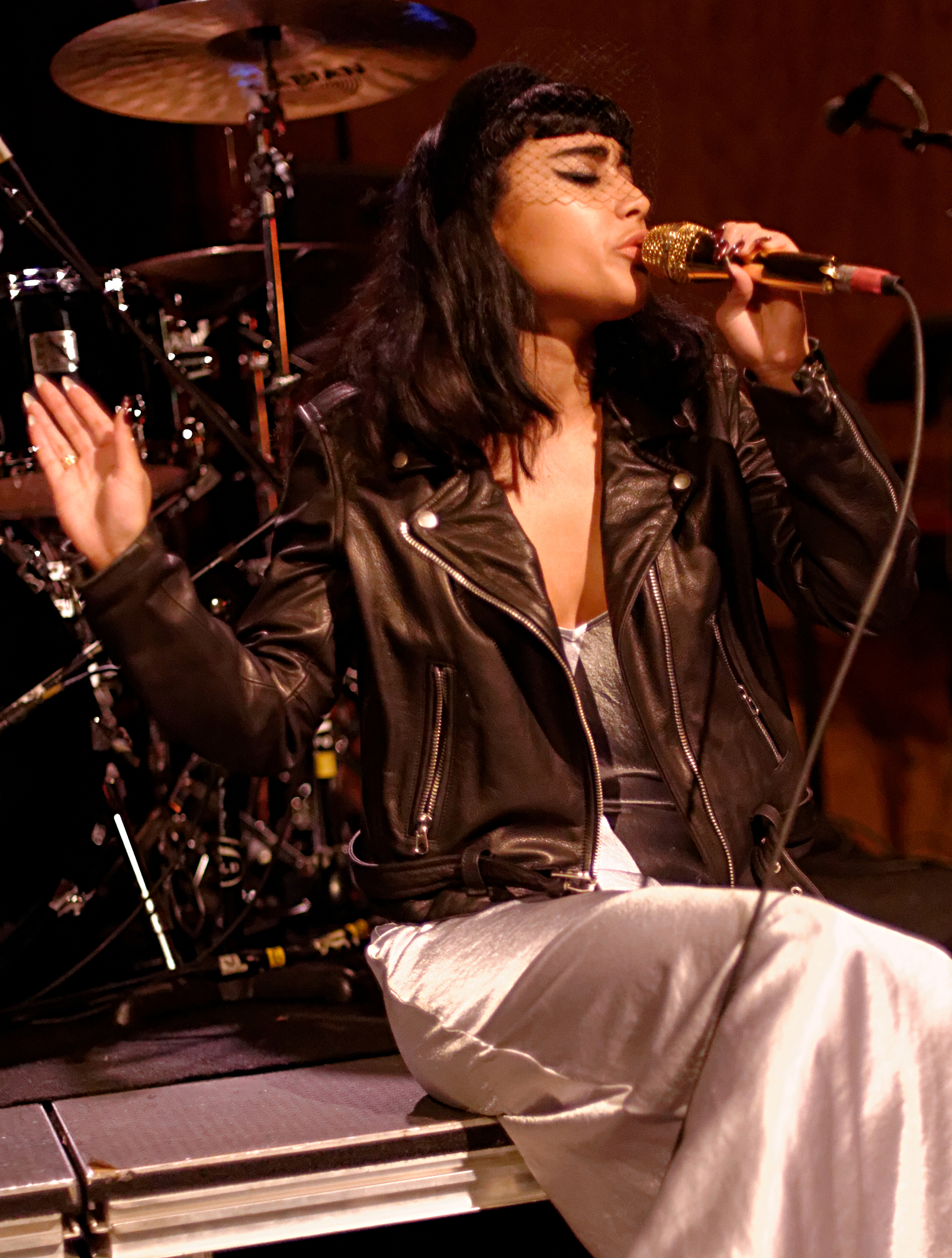 The image presents recording artist Natalia Kills performing at a bar.